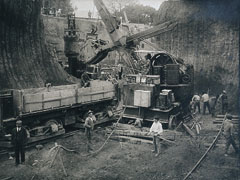 Construction of Line A of the subway in Buenos Aires